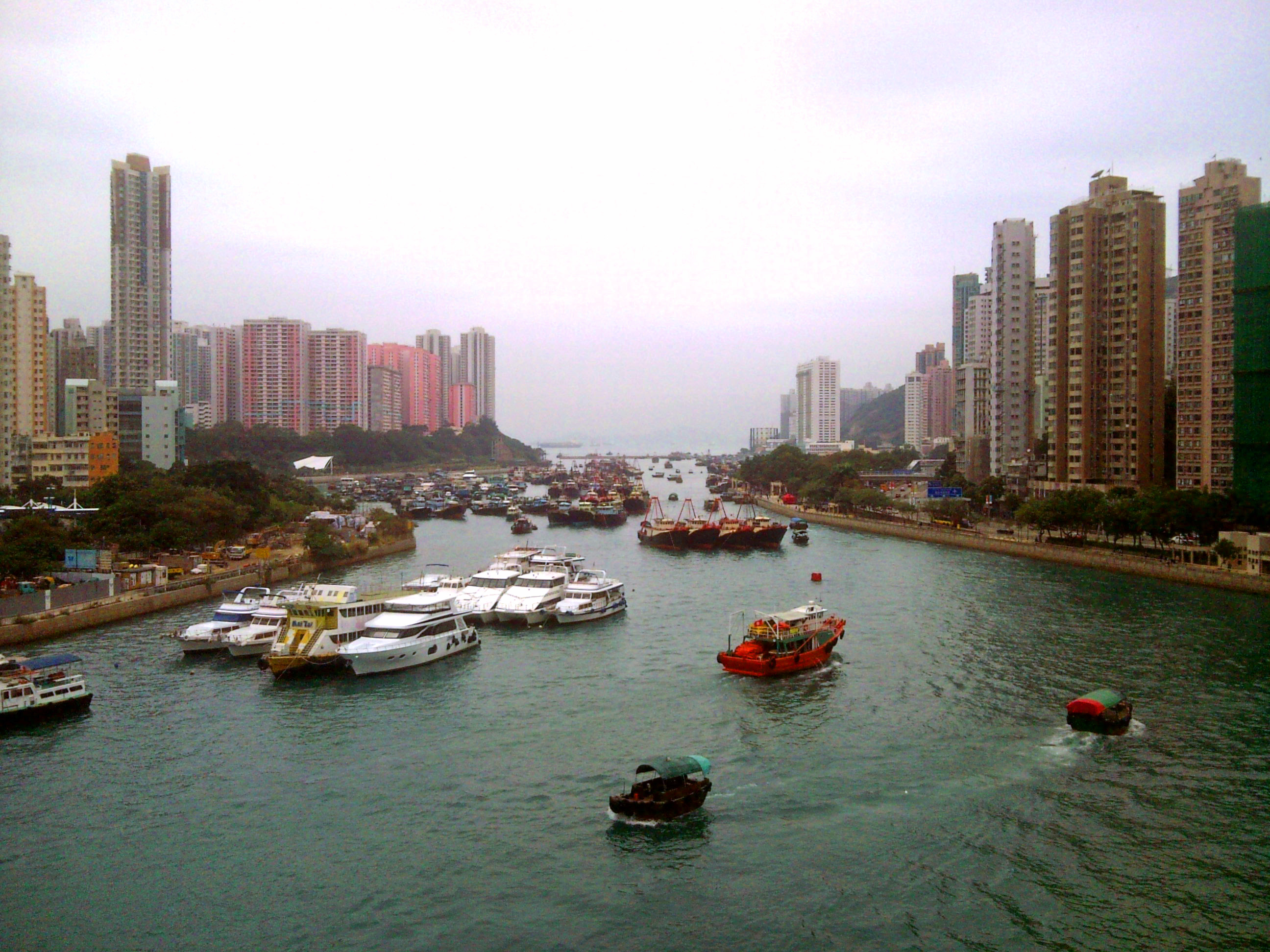 Ap Lei Chau and Aberdeen